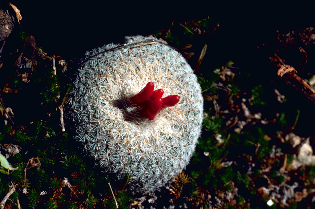 Epithelantha micromeris - Button cactus with fruit [1]